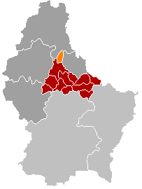 Hoscheid municipality location (valid until 1 January 2012). Own edit of Kanton DiekirchLocatie.png